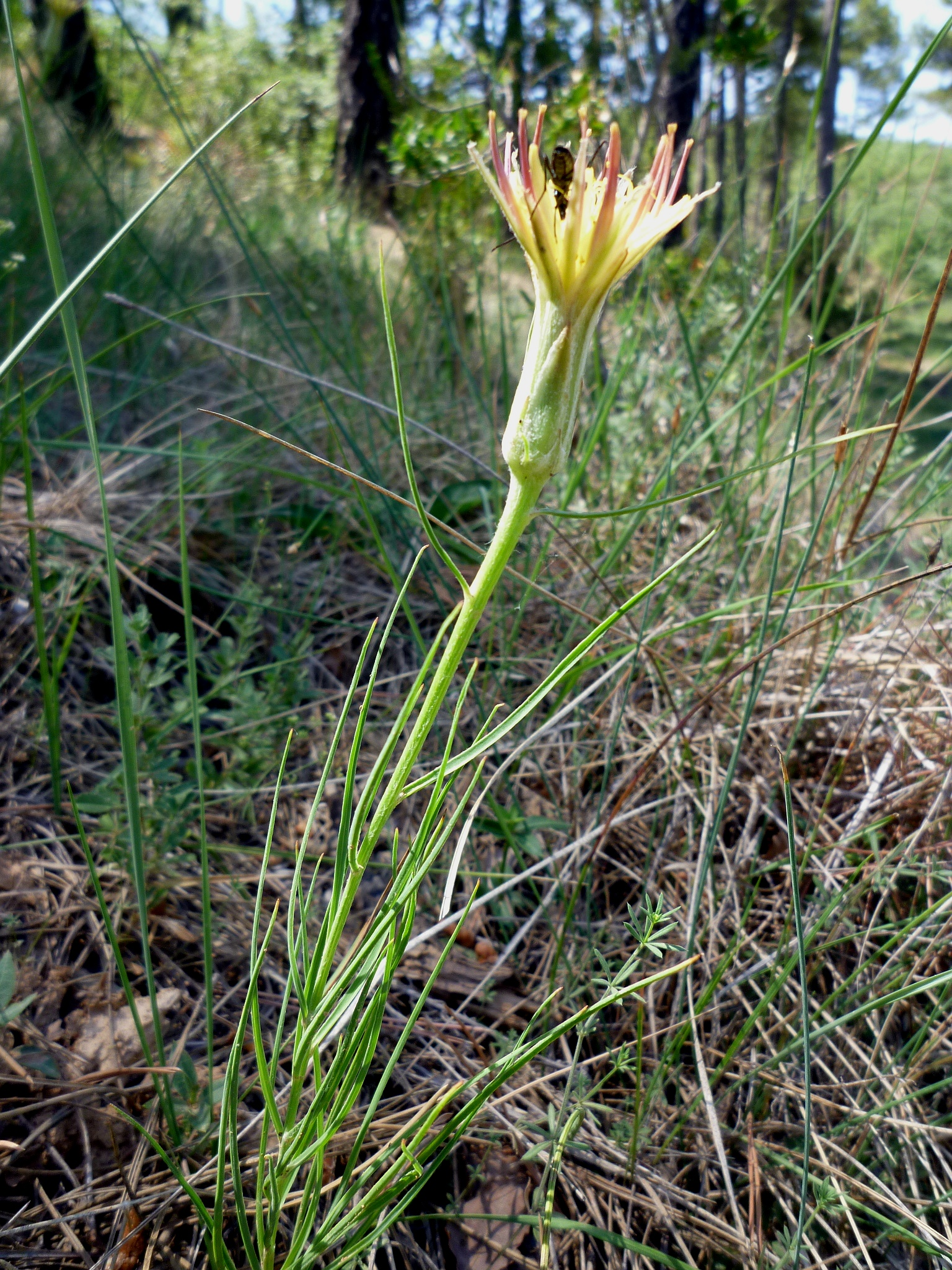 Scorzonera angustifolia. In Torà (Segarra- Catalunya). On 580 m. altitude